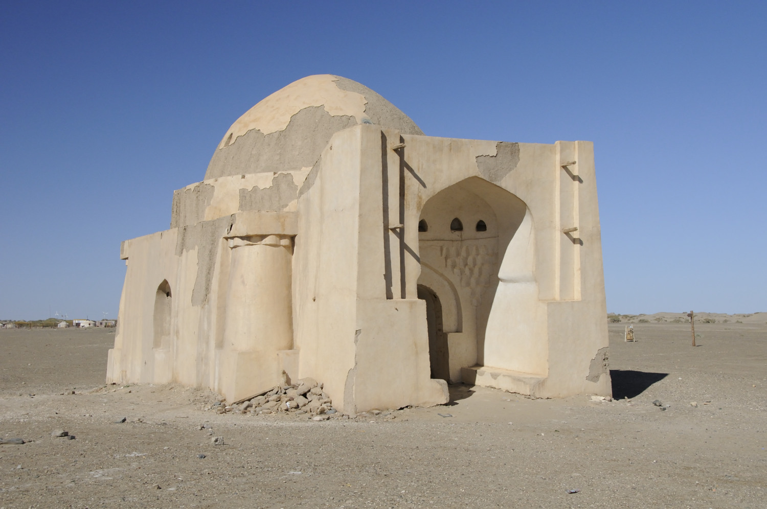 Ruin inside Kharakhoto from east, October 2008.